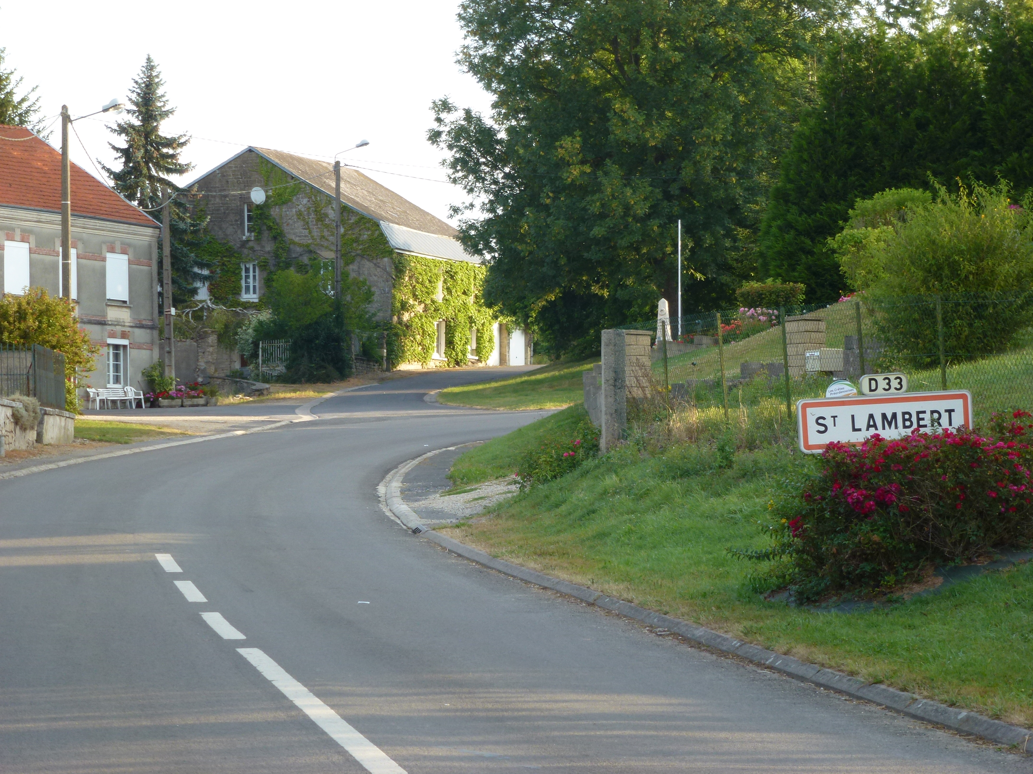 Saint-Lambert-et-Mont-de-Jeux (Ardennes) city limit sign Saint-Lambert